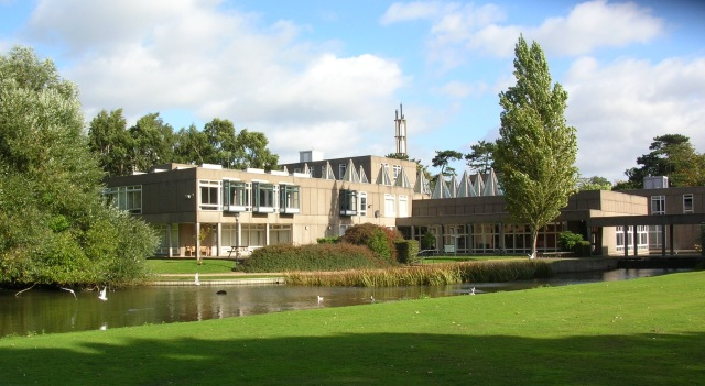 Derwent College The dining hall (with the glass pyramids on the roof) viewed across the top of the lake. Behind is the chimney from the boiler house.